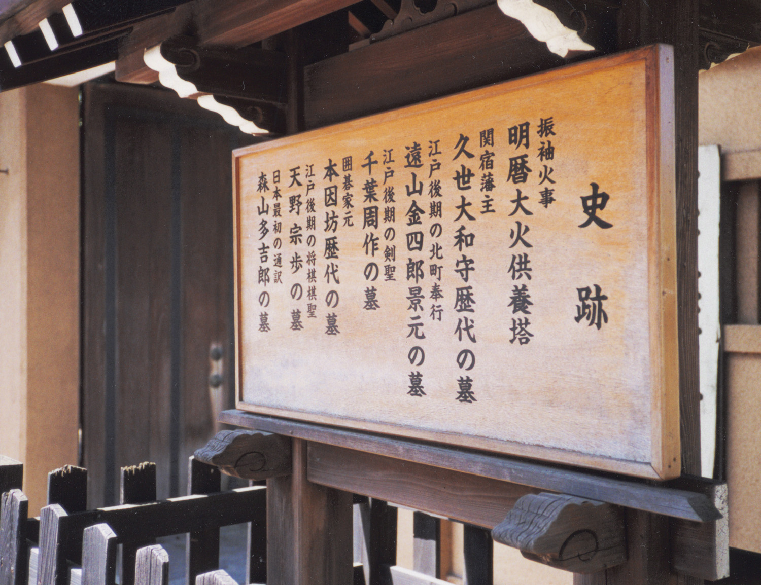 Historic marker for Great Fire of Meireki, Sugamo, Toshima, Tokyo.